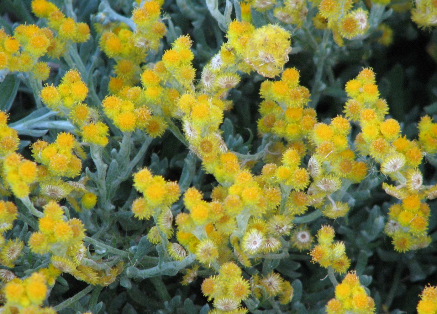 Chrysocephalum apiculatum, Royal Botanic Gardens, Melbourne, Australia